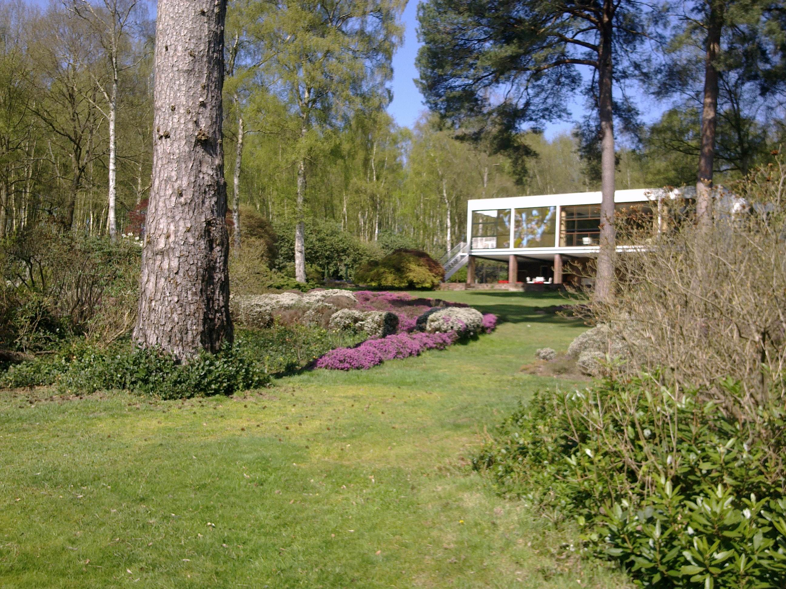 The Homewood (house built and resided in by the late architect, Patrick Gwynne)